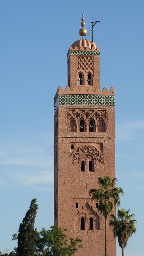 Minaret in Marrakech (Morocco).